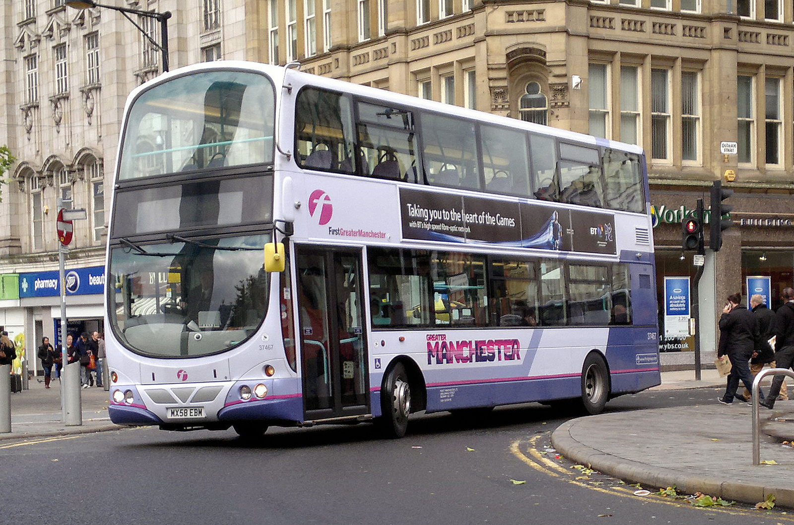 A First Greater Manchester bus emerging from Oldham Street in Manchester city centre. Bus enthusiasts will surely provide details of this lovely vehicle, painted in a wonderful lilac and purple Greater Manchester livery.